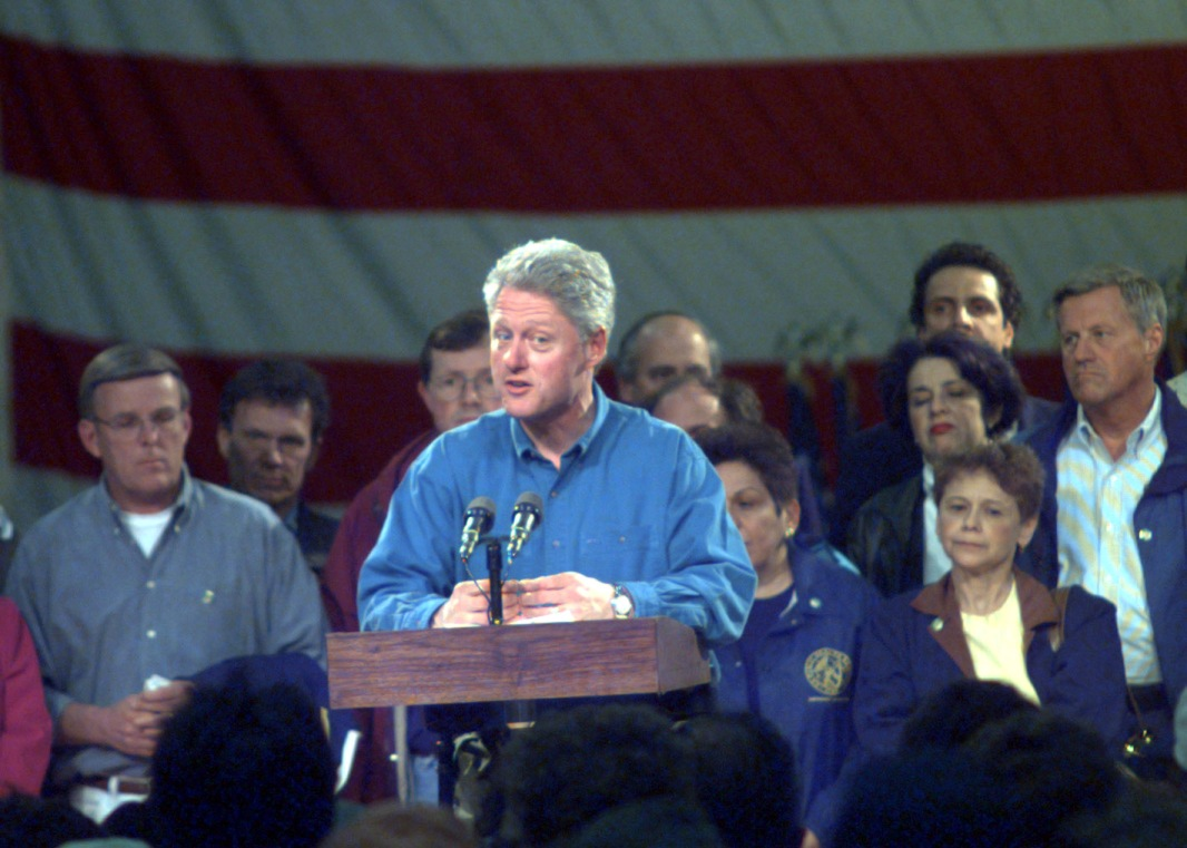 Former U.S. President Bill Clinton at Grand Forks Air Force Base, North Dakota a few days after the 1997 Red River Flood. Former Grand Forks mayor Pat Owens is at the far right in the image.